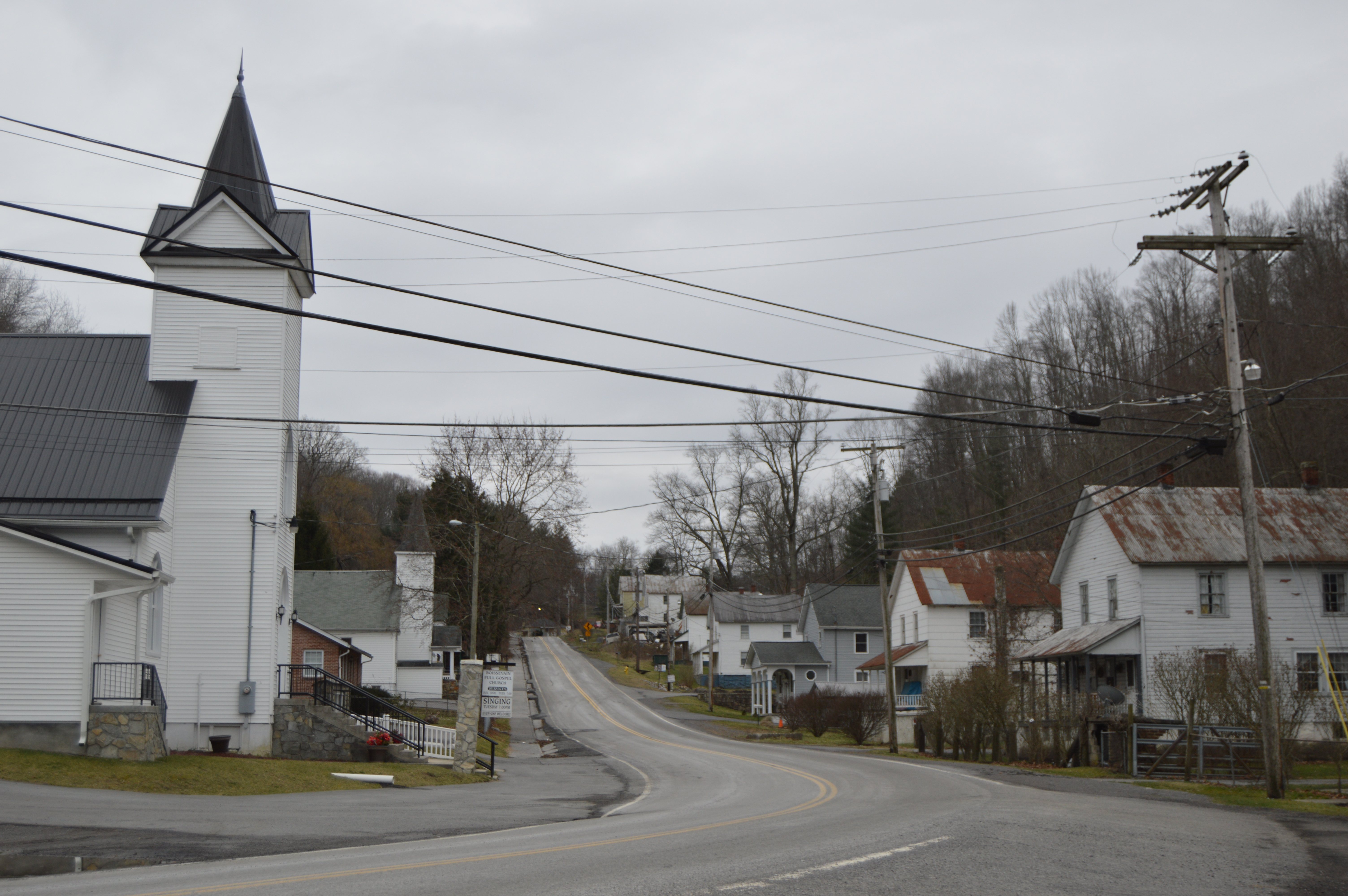 Looking south from the Laurel Creek Road intersection toward houses and a Pentecostal church on Boissevain Road in Boissevain, Virginia, United States.